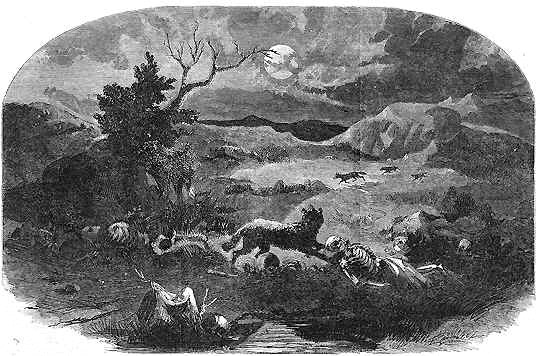 Sketch of the site of the 1857 Mountain Meadows Massacre, Harpers Weekly Cover Story August 13, 1859 - Mountain Meadows Massacre.